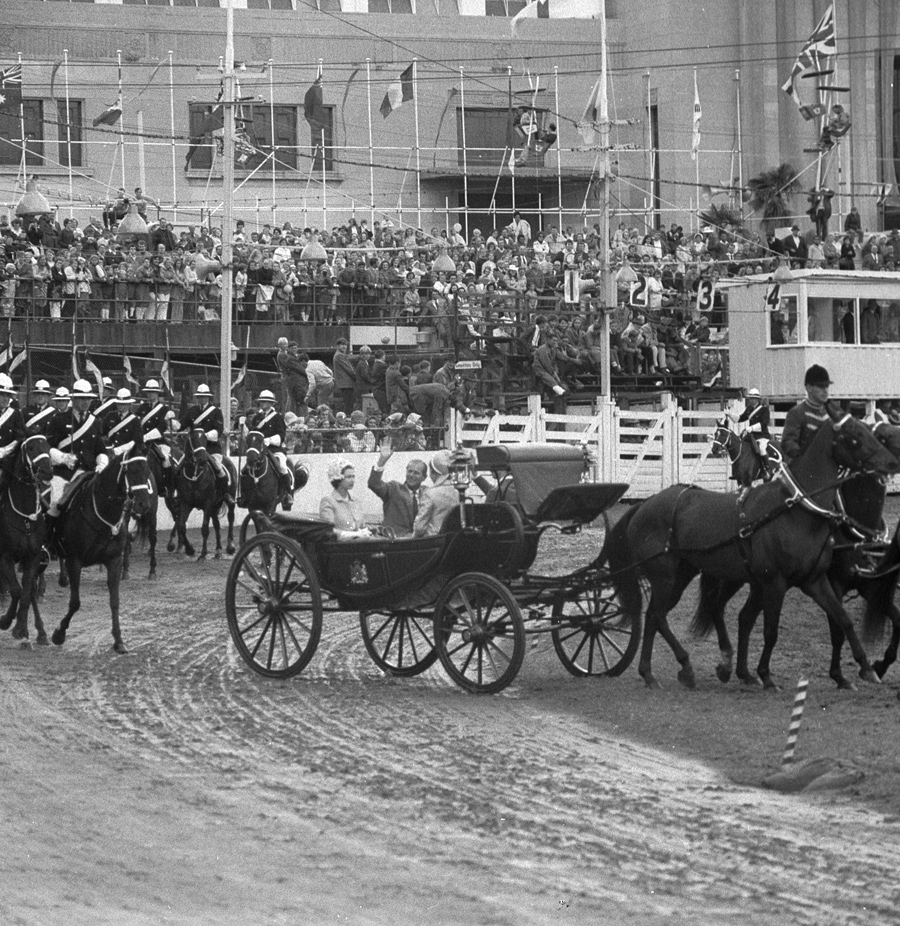 Format: Negative Find more detailed information about this photographic collection: .au/item/itemDetailPaged.aspx?itemID=126869 From the collection of the State Library of New South Wales